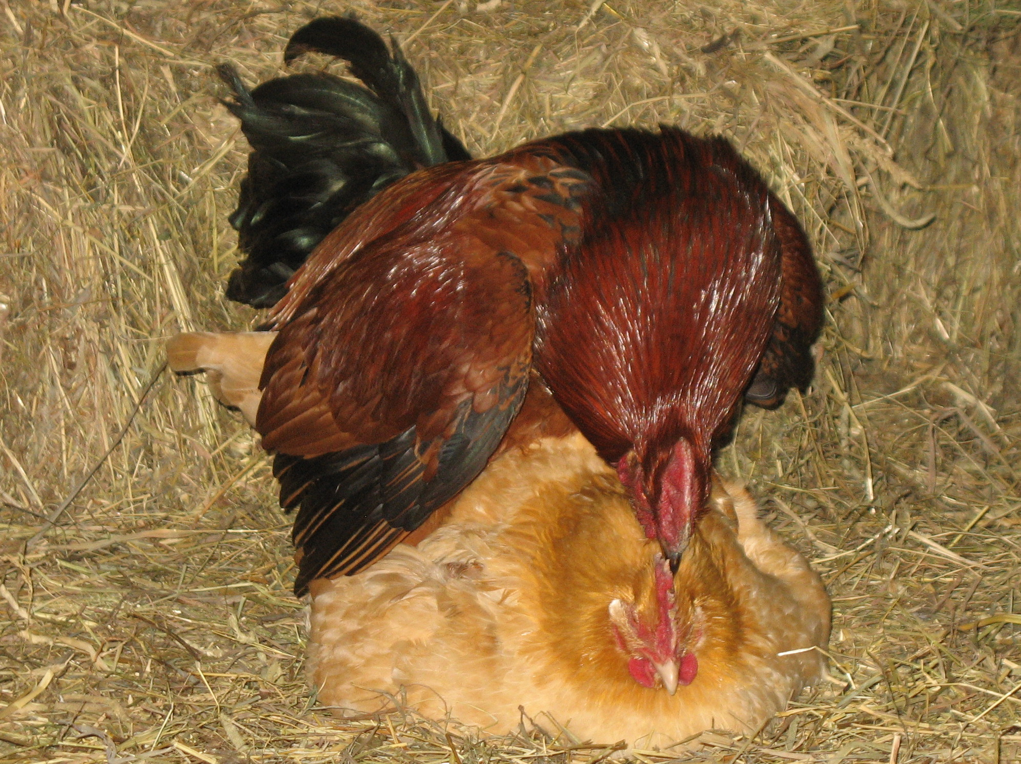 A rooster and hen mate.